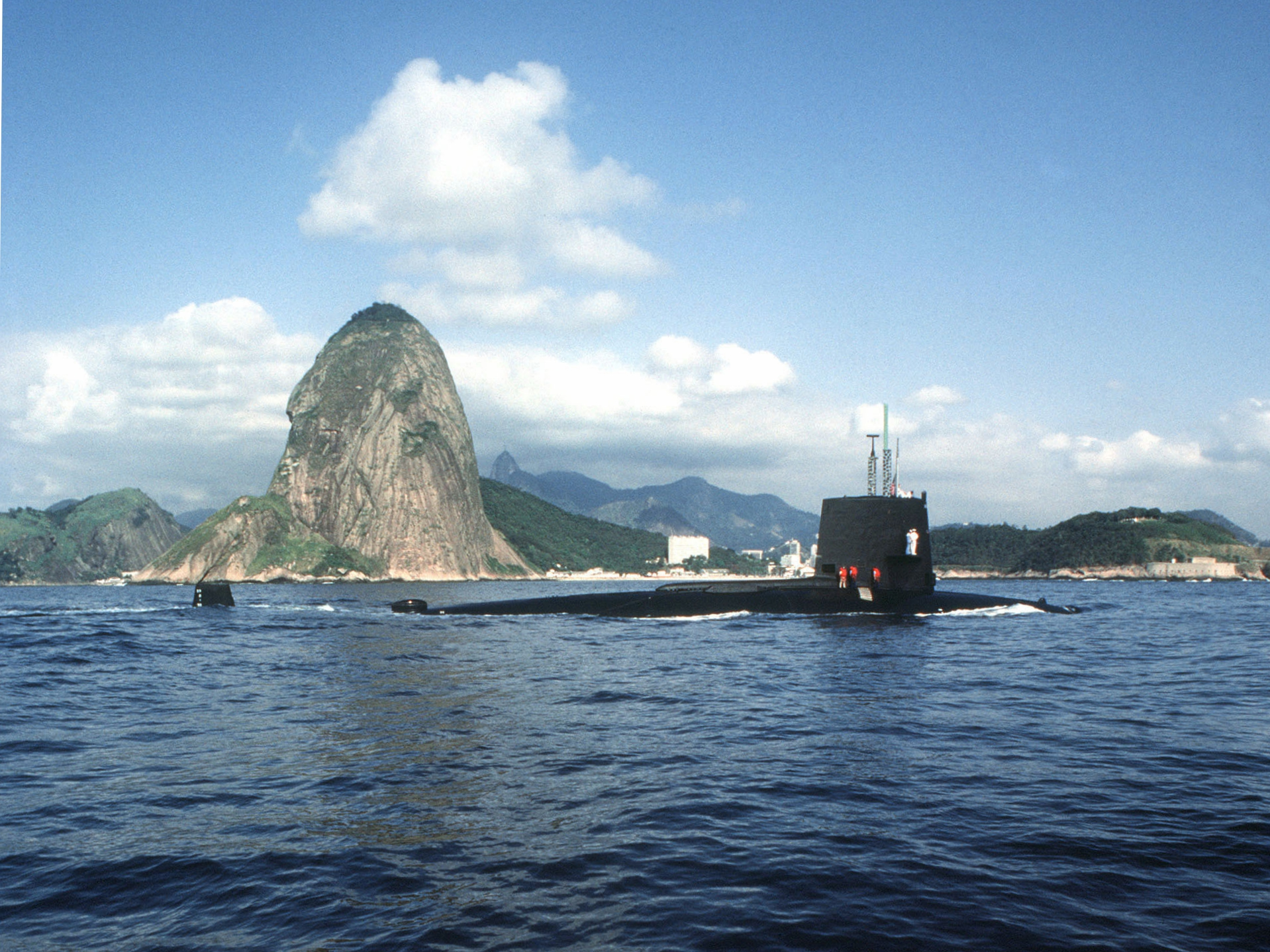 The U.S. Navy nuclear-powered attack submarine USS Snook (SSN-592) as it enters port at Rio de Janeiro during exercise UNITAS XXV.